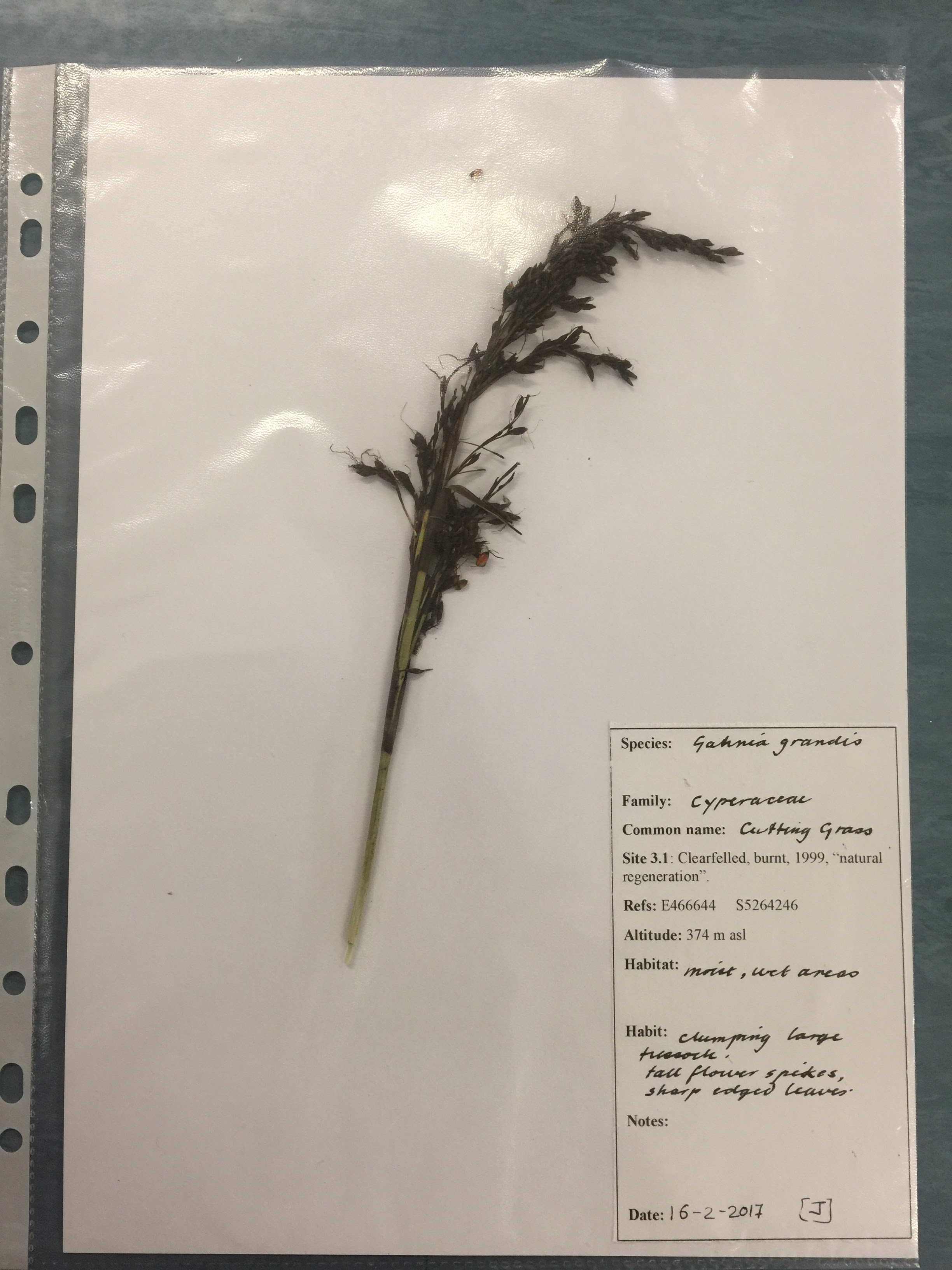 photo by j